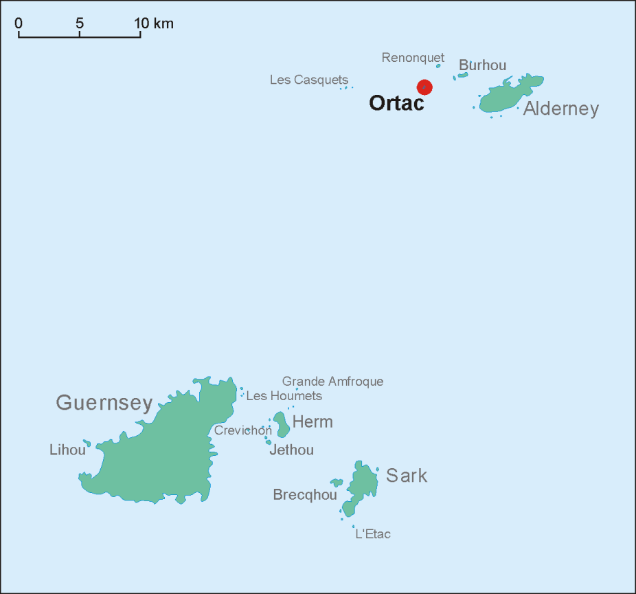 Location map of Ortac